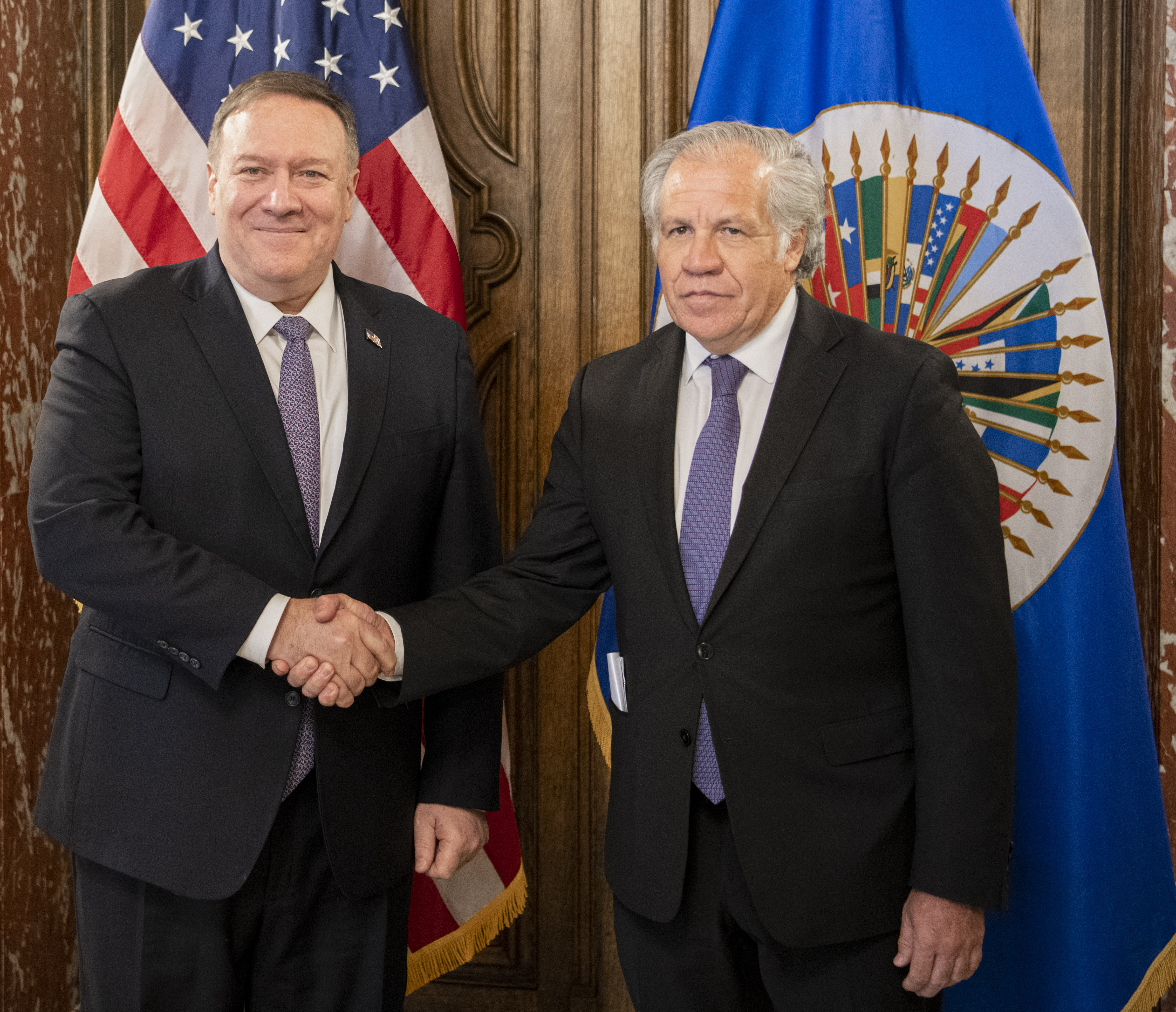 Secretary of State Michael R. Pompeo shakes hands with Organization of American States President Luis Almagro, at the Organization of American States, in Washington, D.C on January 17, 2020. [State Department photo by Freddie Everett/ Public Domain]